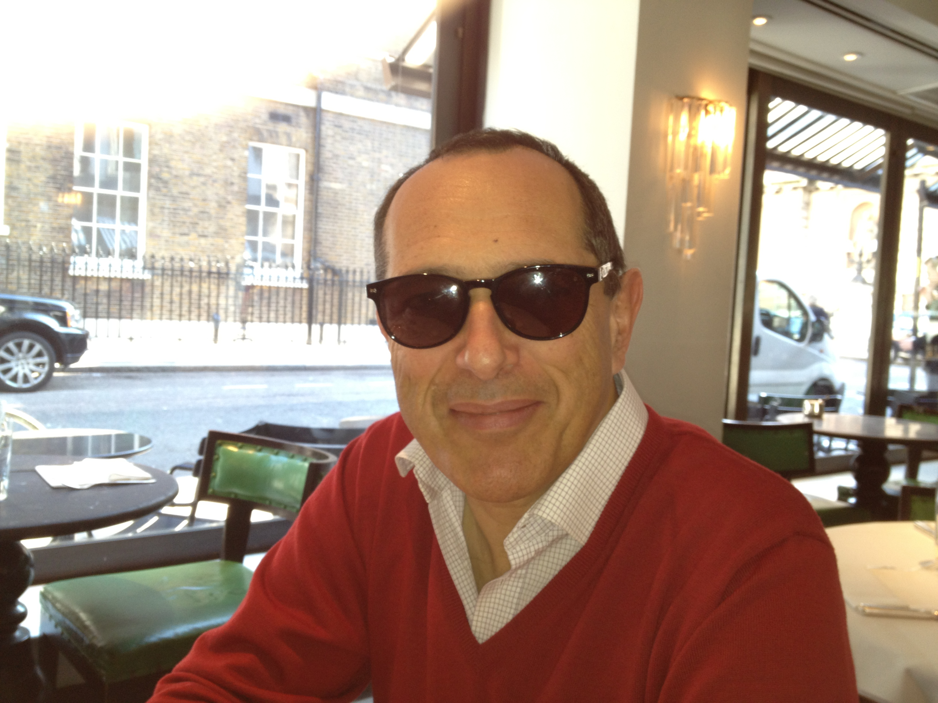 John Rober Porter at Cecconi´s Mayfair,London